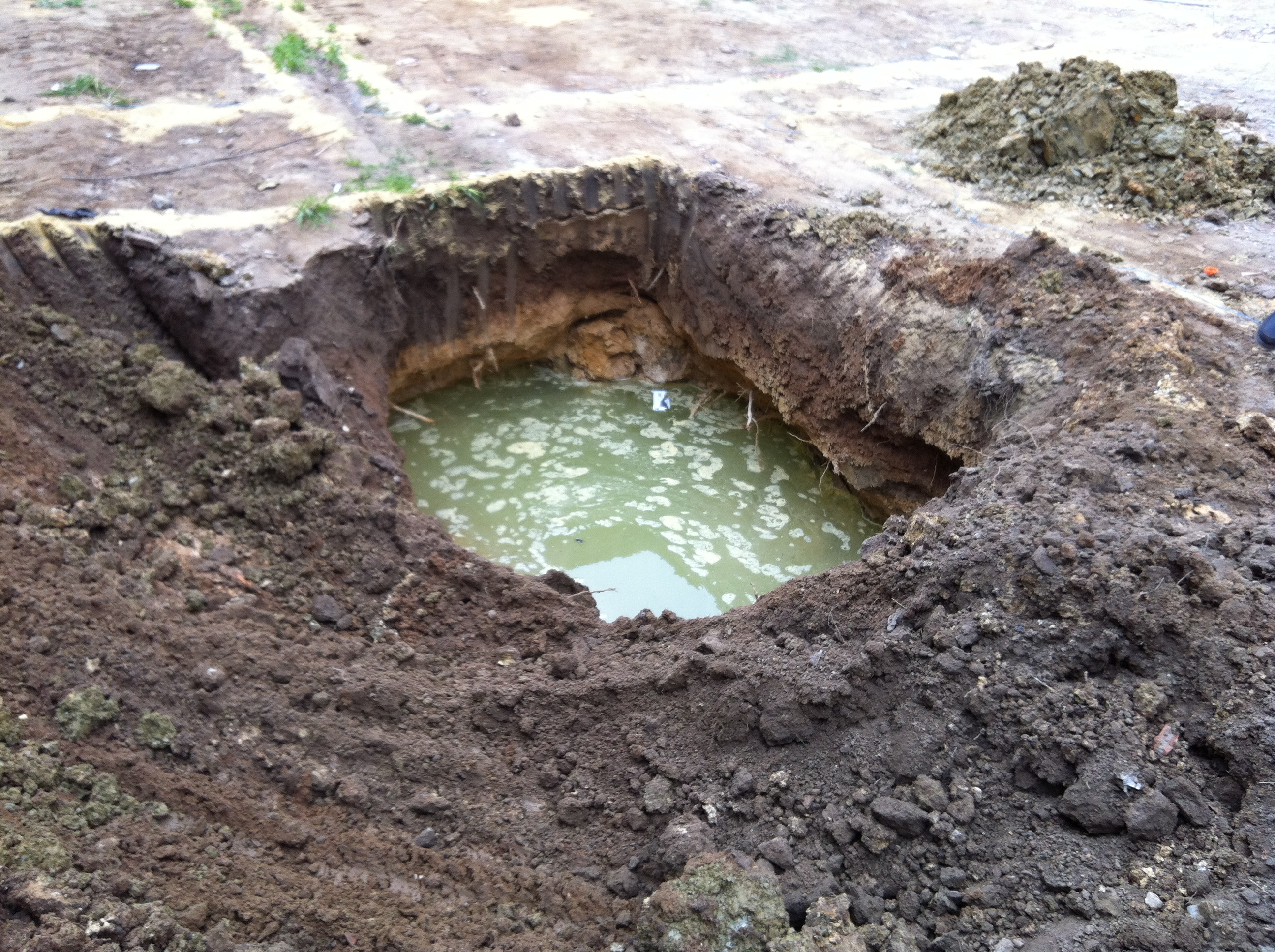 Construction in Tunisia